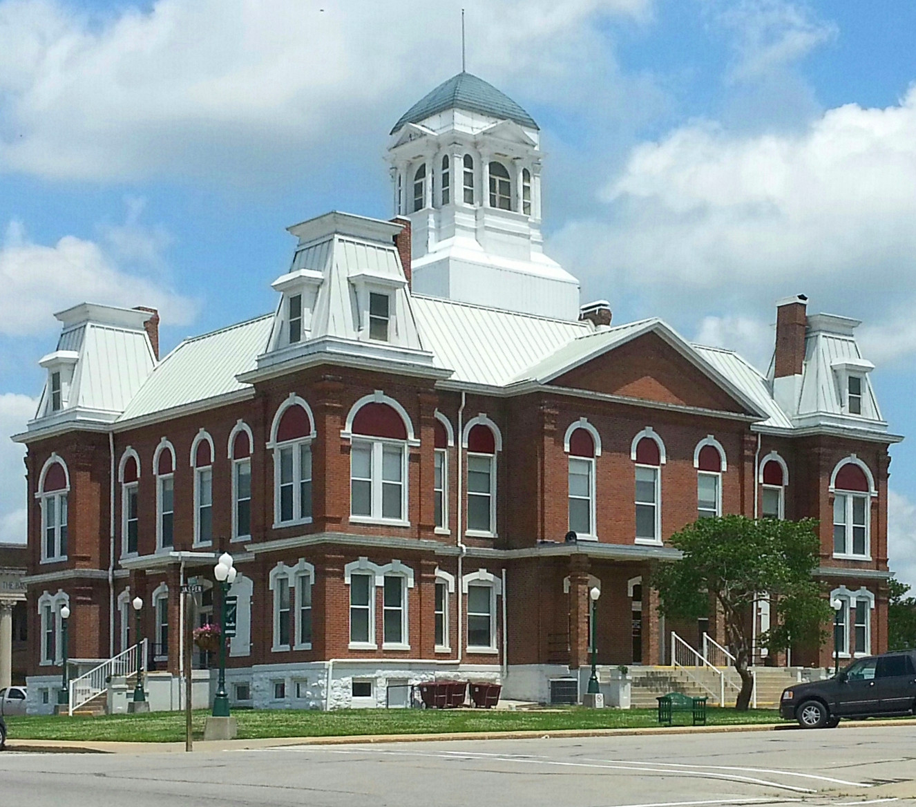 Morgan County Courthouse in Versailles, Missouri.